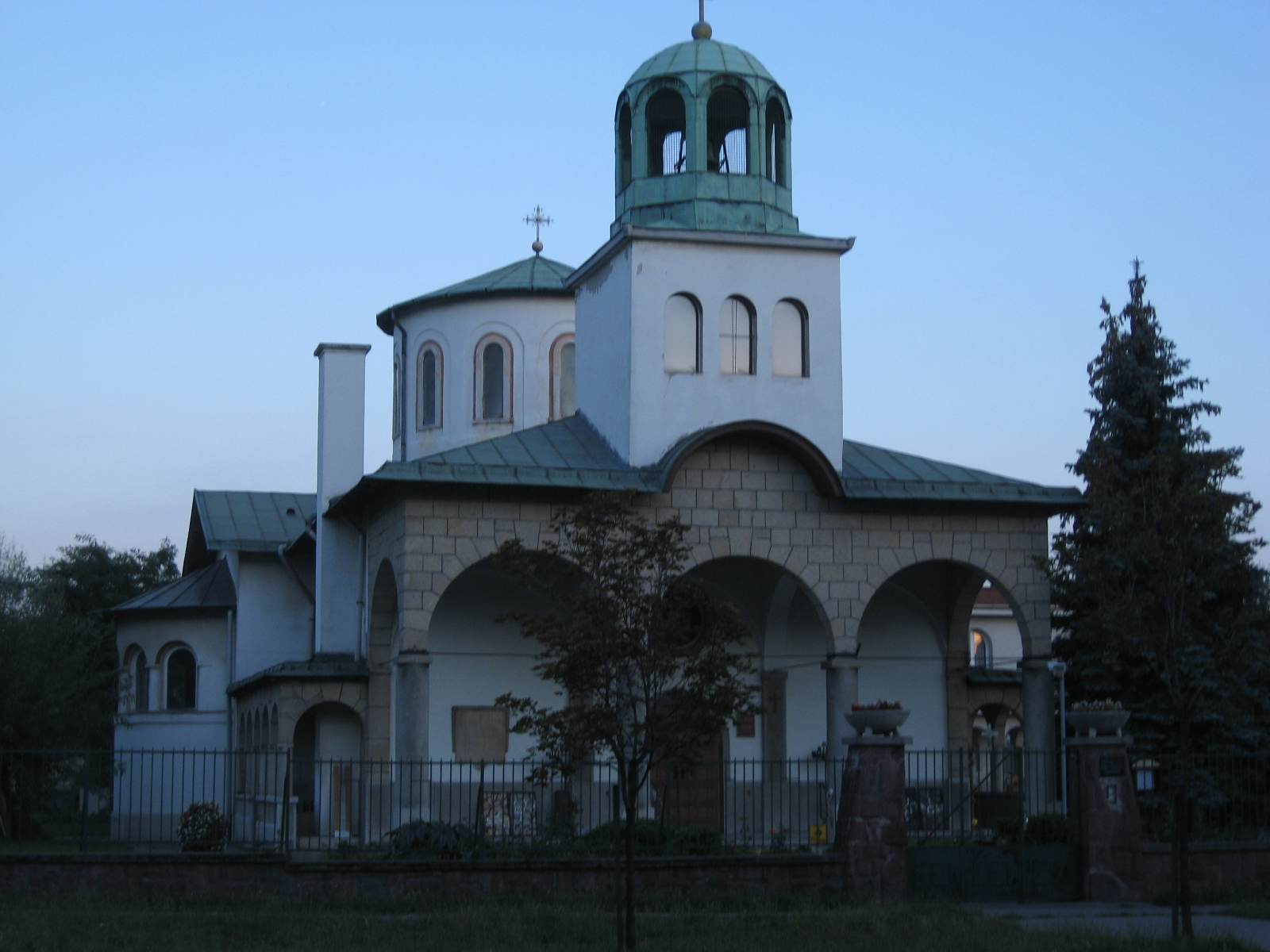 The Bulgarian Orthodox Church of Saints Cyril and Methodius in Ferencváros, Budapest.(Szent Cirill és Szent Metód Bolgár Pravoszláv templom), IX. Vágóhíd utca 15. - Take M3:Nagyvárad tér metro station and take tram 24 one stop to Balázs Béla utca or walk ten min.walk